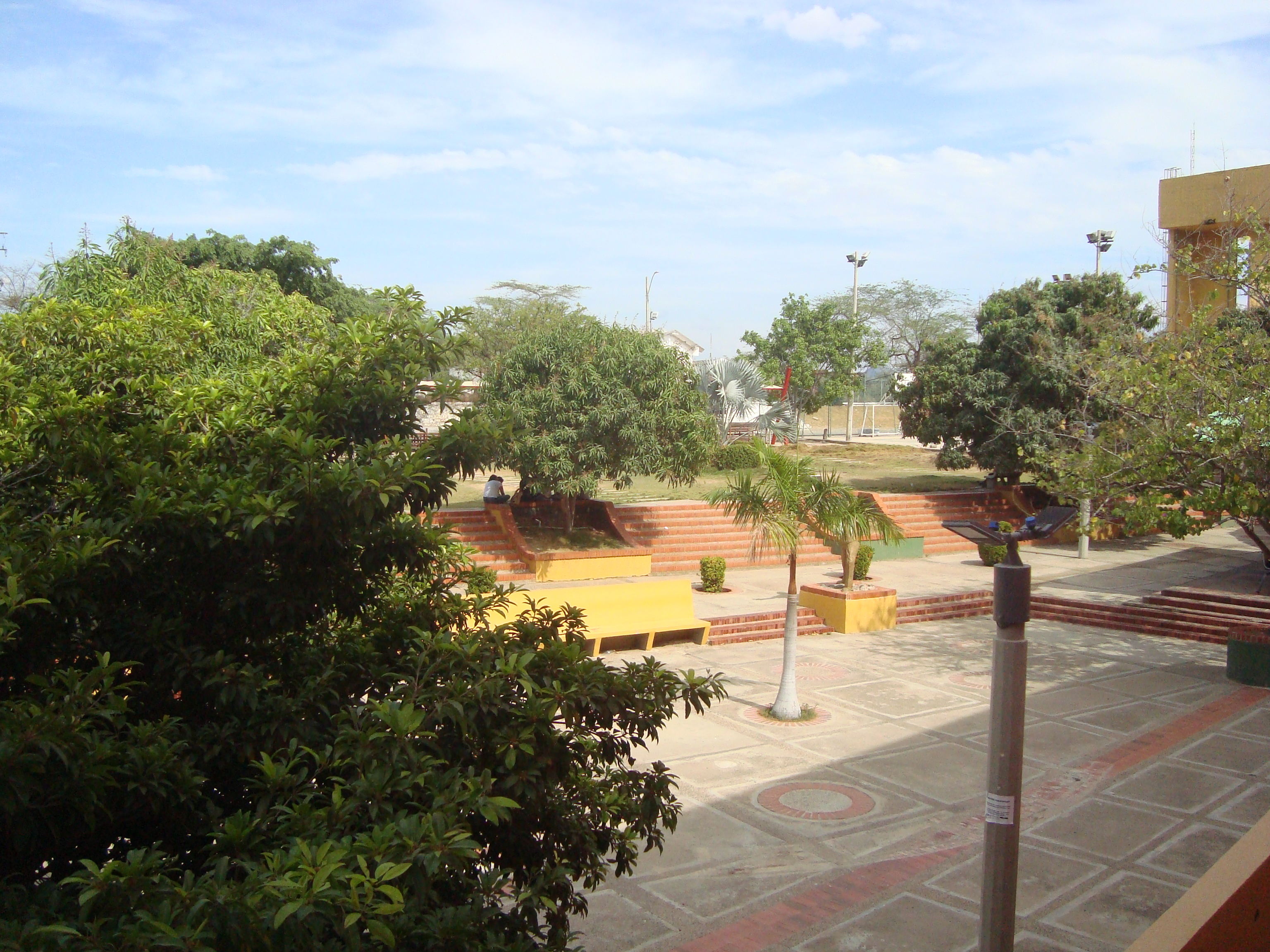 It shows the main square of La Guajira University